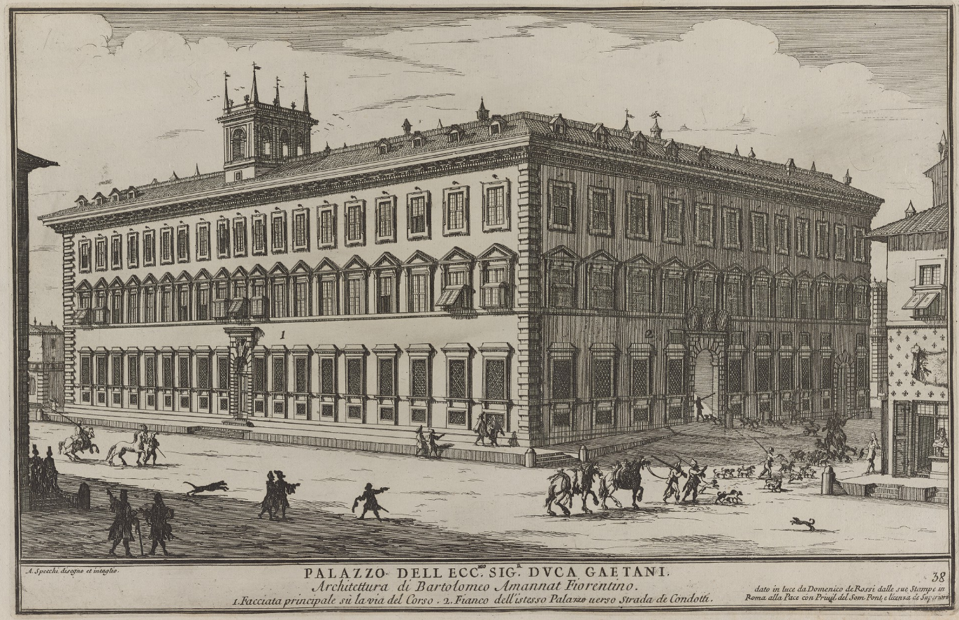 View of the Palazzo Caetani (Palazzo Ruspoli)i, including the facade facing the Via del Corso (1 in image), 2. facade facing the Strada de Condotti (2 in image). Originally remodeled by Ammanati for Orazio Rucellai, it was bought by the Caetani family in 1630, and then by the Ruspoli in the 18th century.